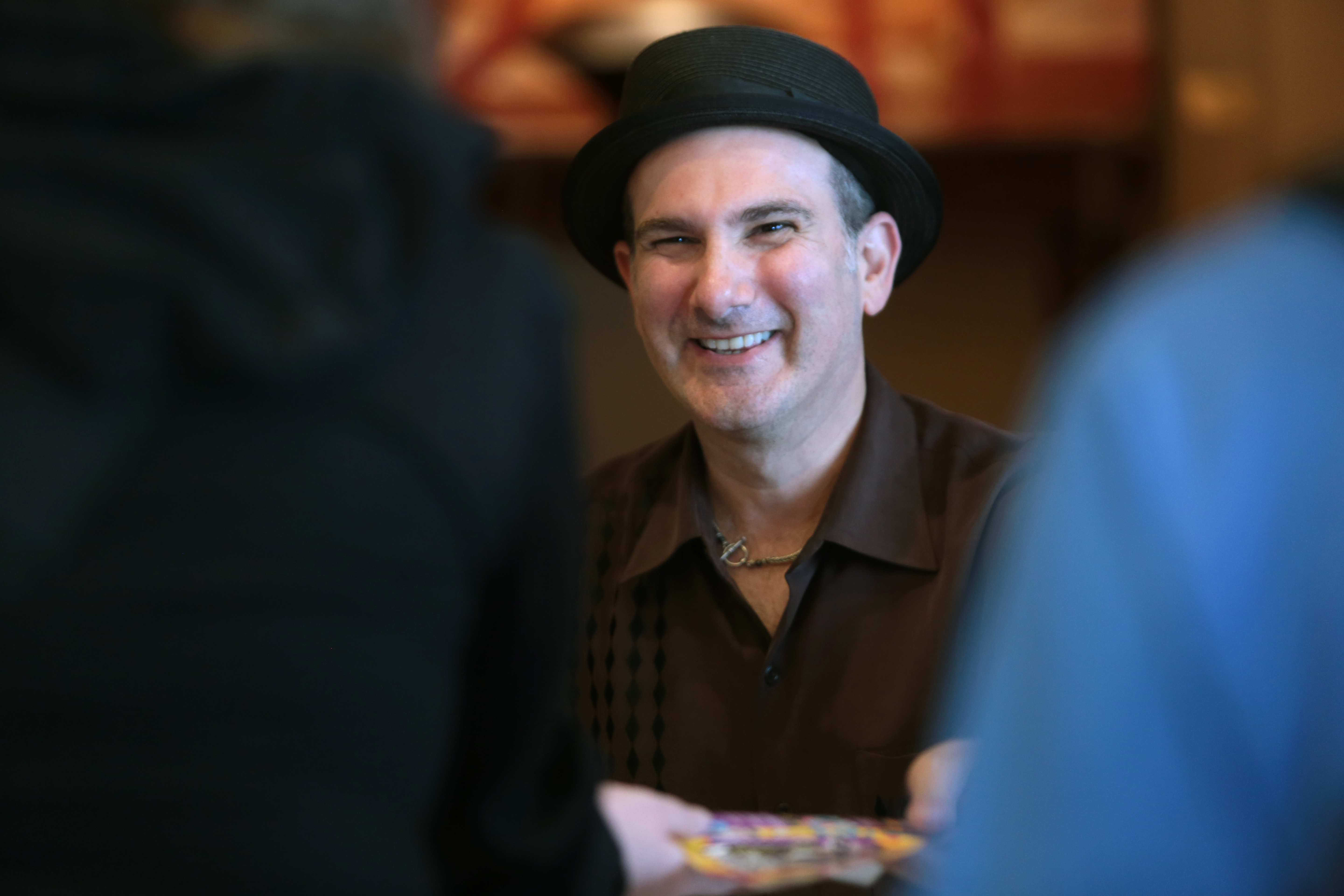 Eric Stuart performing at Saboten Con in Phoenix, Arizona.